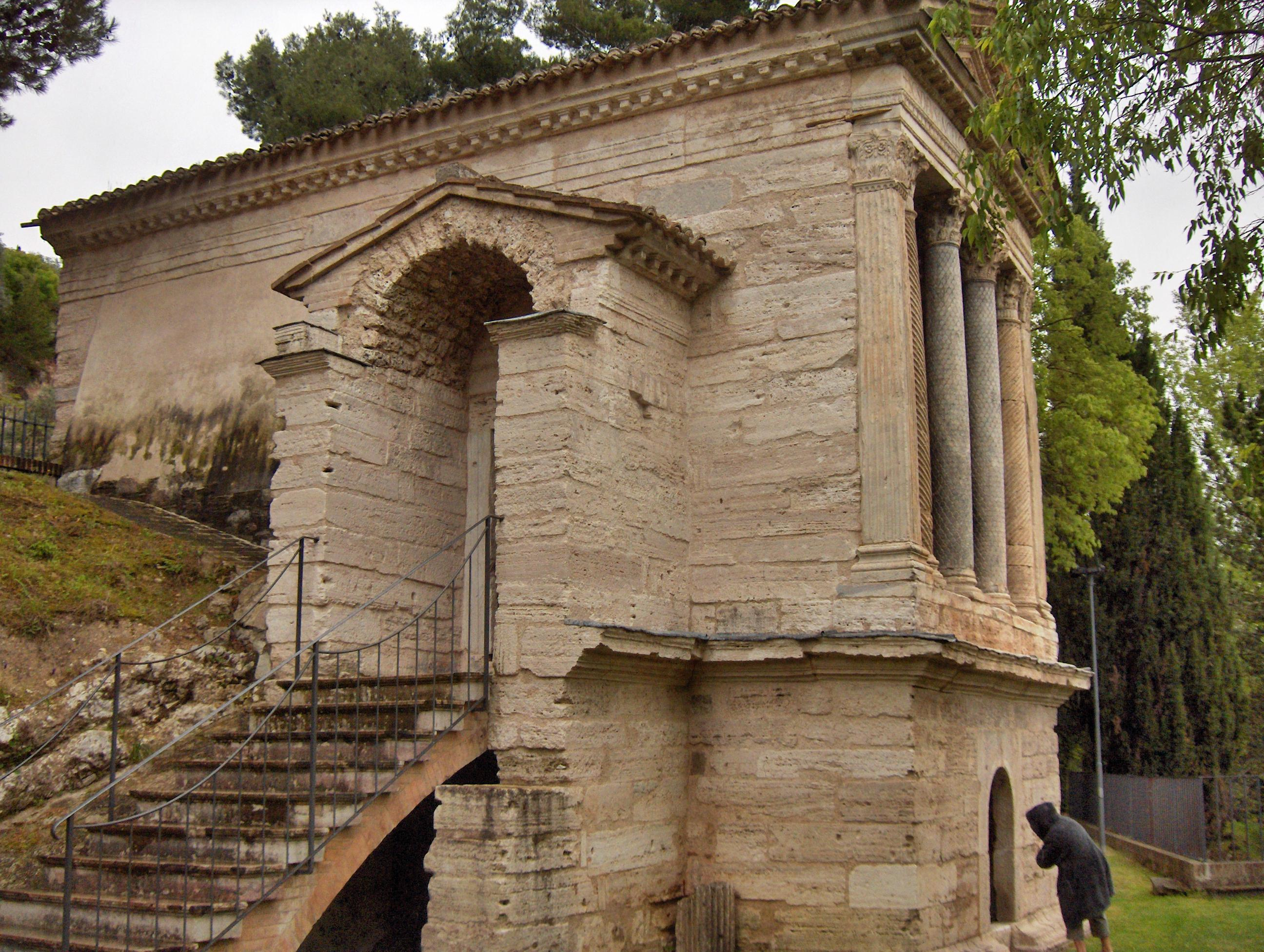 The former Roman temple dedicated to the river god Clitumnus and transformed into an early-Christian church (probably in the fourth century); located in Campello sul Clitunno, south of Trevi, Italy.